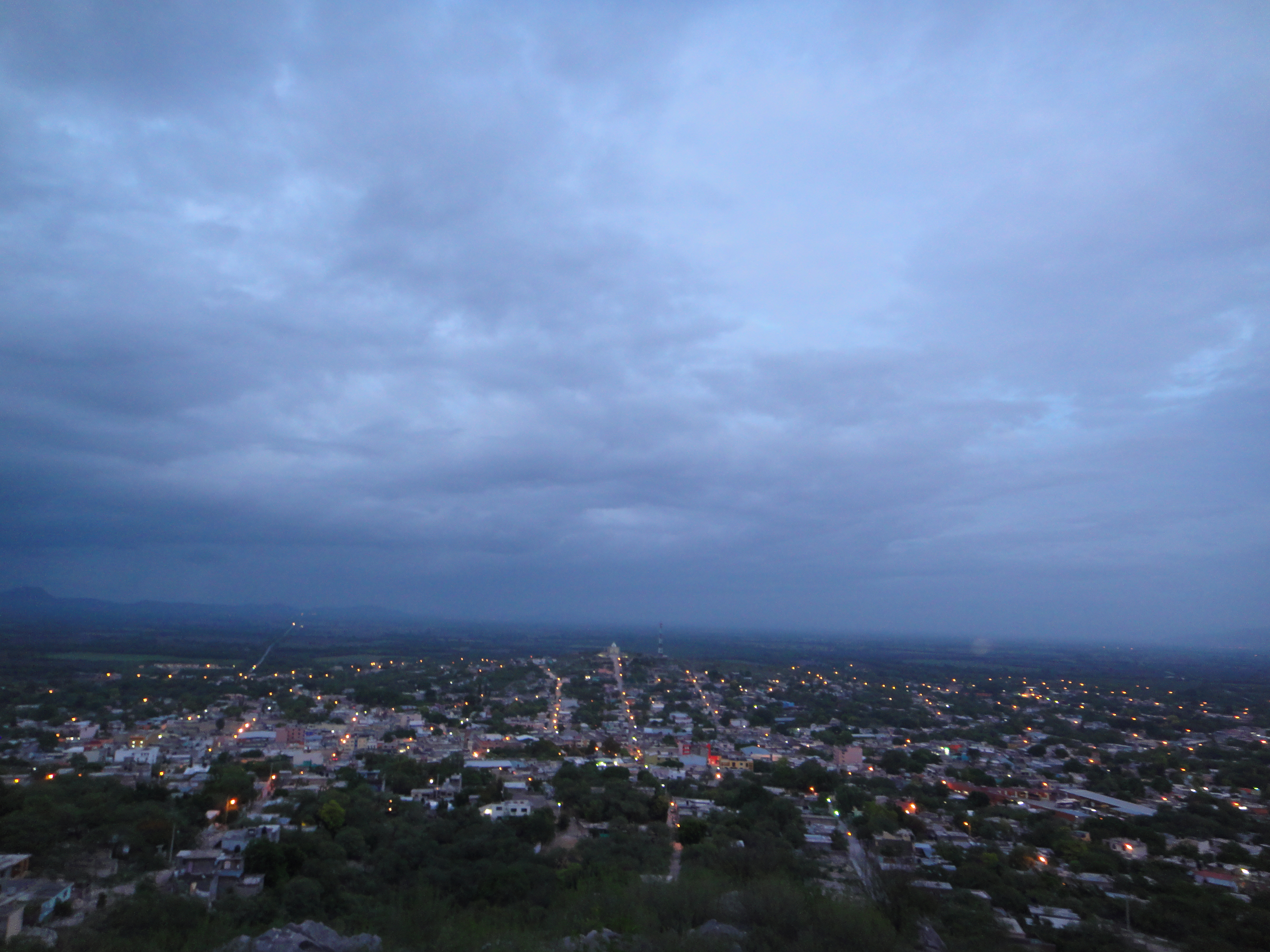 Image of cerritos slp